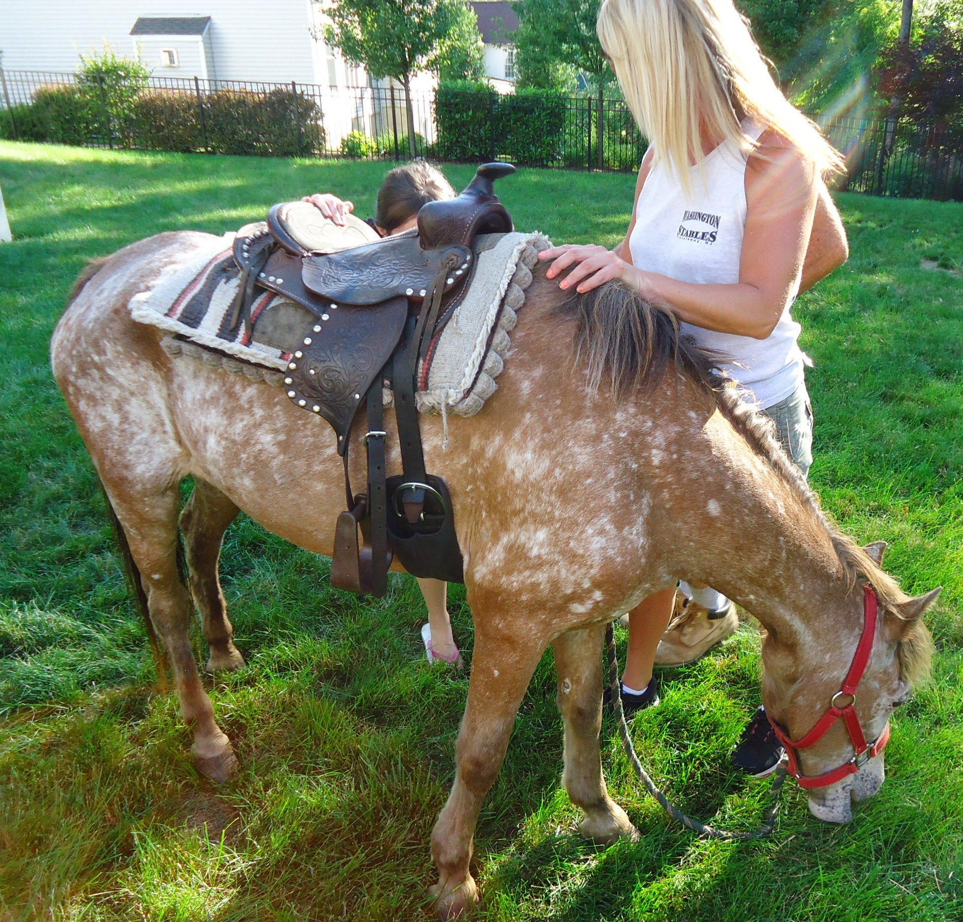 Pony ride at a backyard birthday party. Ponies love to eat grass. If several ponies stayed in the backyard for a week, the grass would be all gone, said the owner.